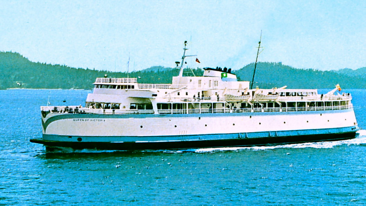 Queen of Victoria - c1964 - post card - DOT collection